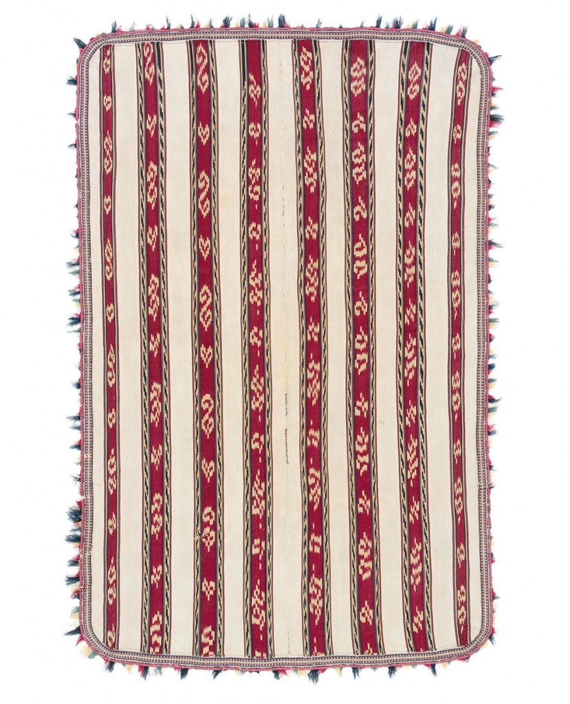 Poncho Aymara Indian - Bolivia 17th - 18th Centuries Cotton Warp: 89 in. Weft: 58 in.